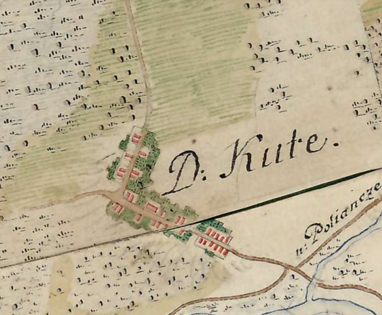 Vojna karta Slavonije 1781. - 1783. godine Kuti i okolica